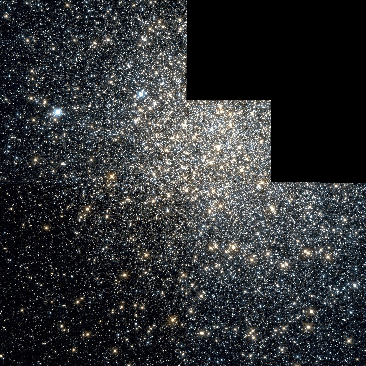 Messier 19 globular cluster by Hubble Space Telescope; 2.5′ view